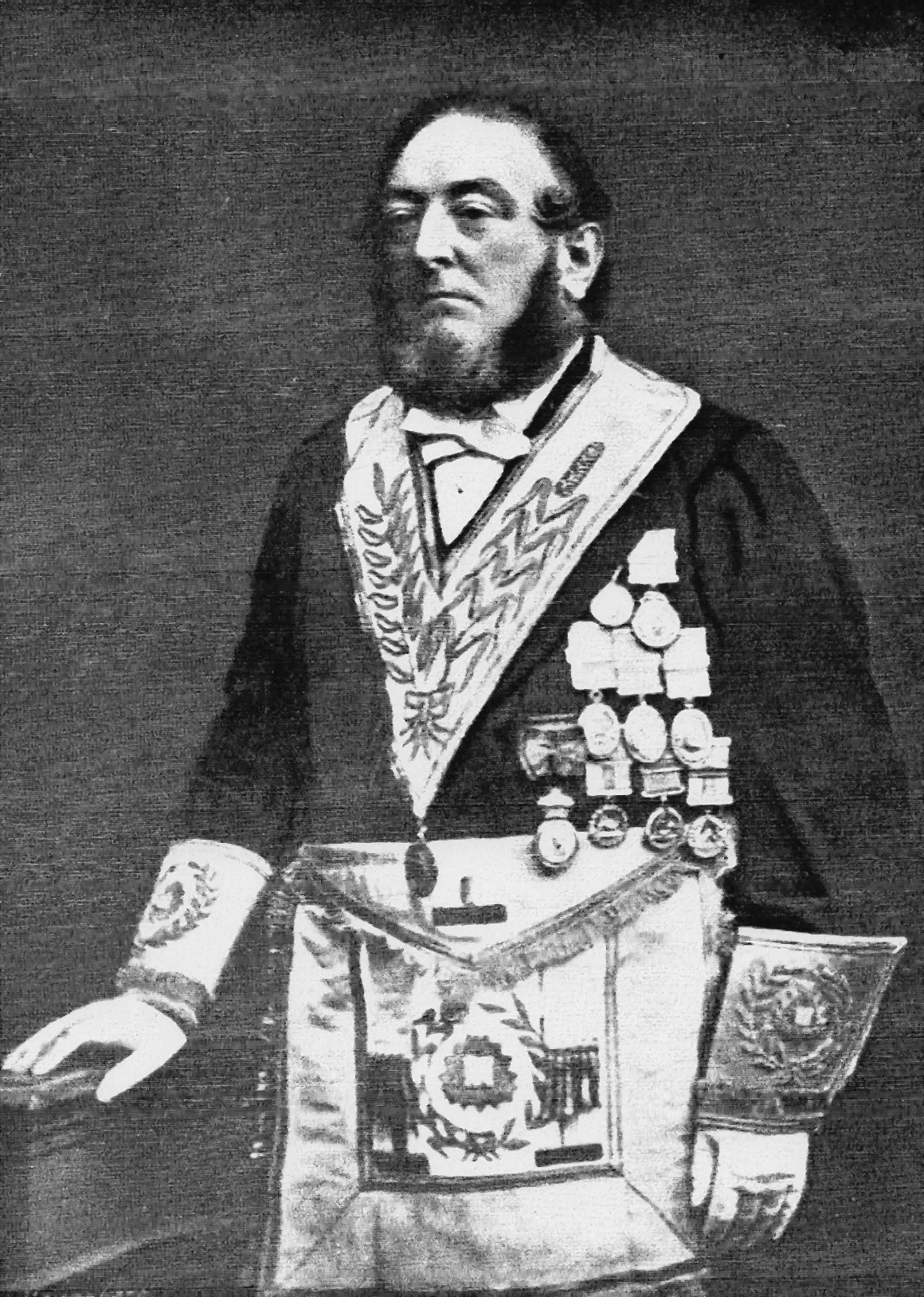 Co-Founder of Quatuor Coronati Research Lodge